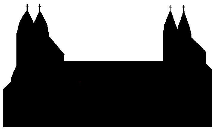 Description: cathedral of Speyer, Germany around the year 1135 Source: own work Date: November 2005 Author: --Immanuel Giel 08:28, 3 November 2005 (UTC) Other versions: none